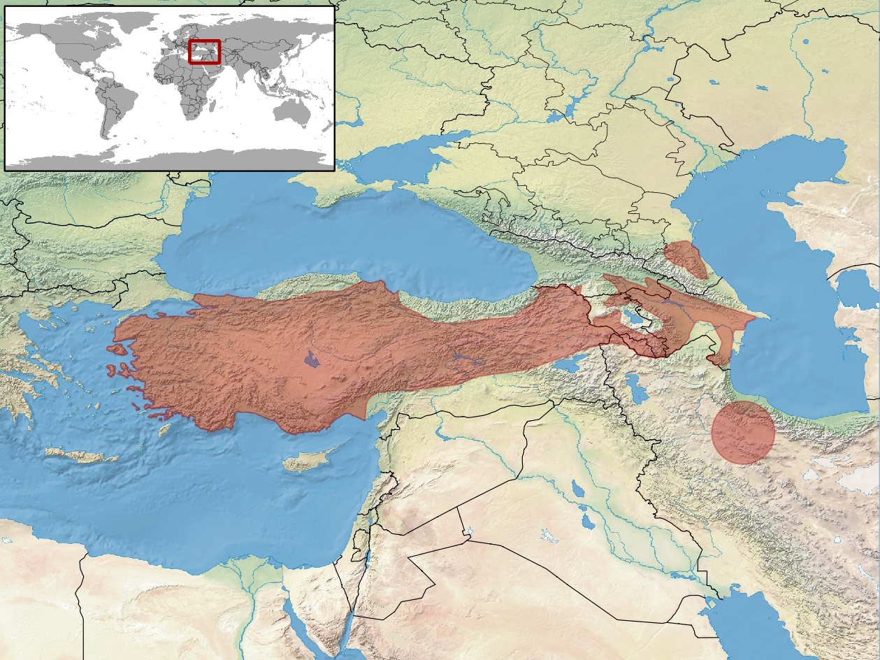 geographic distribution of Eirenis modestus (Native: Armenia (Armenia); Azerbaijan; Georgia; Greece; Russian Federation; Turkey)